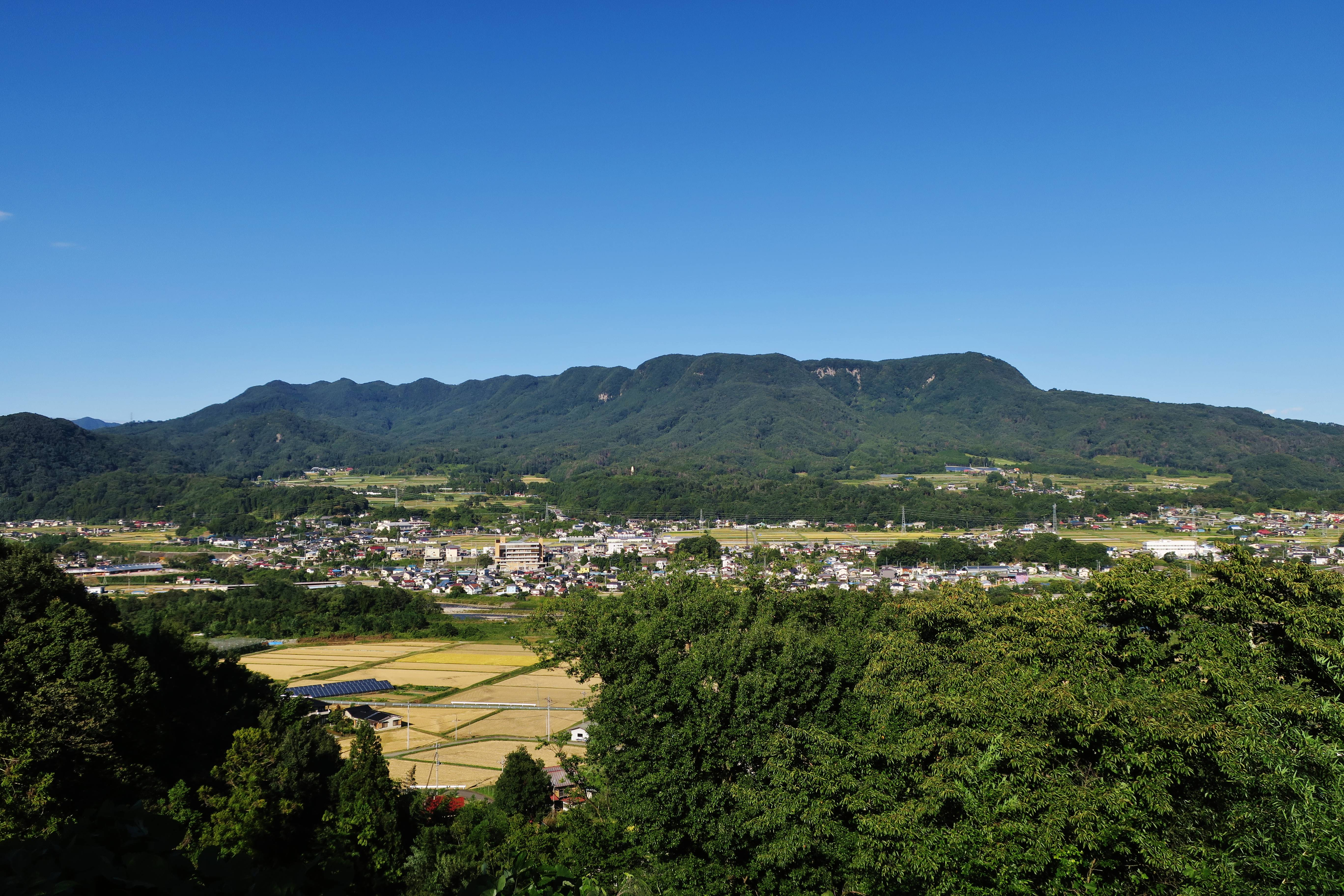 Mount Mitsumine (Gunma Prefecture).